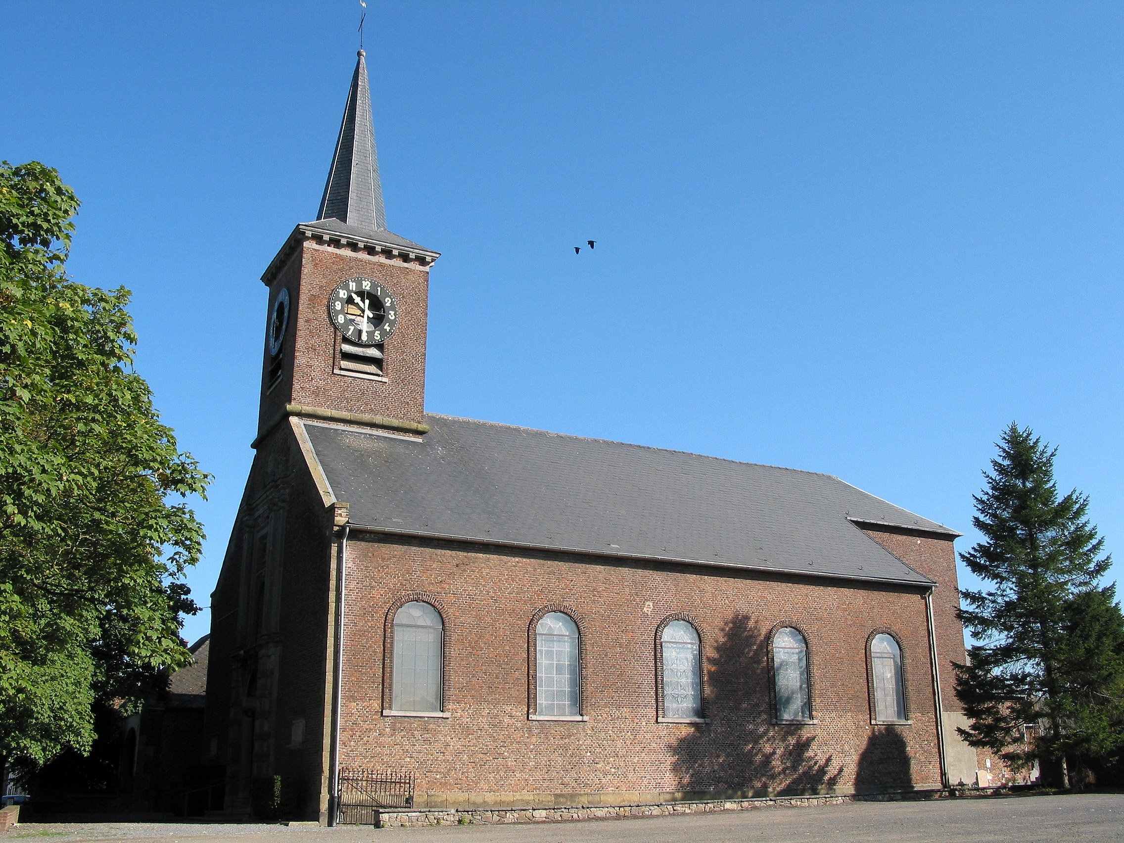 Harmignies (Belgium), the Saint Ghislanus' church.